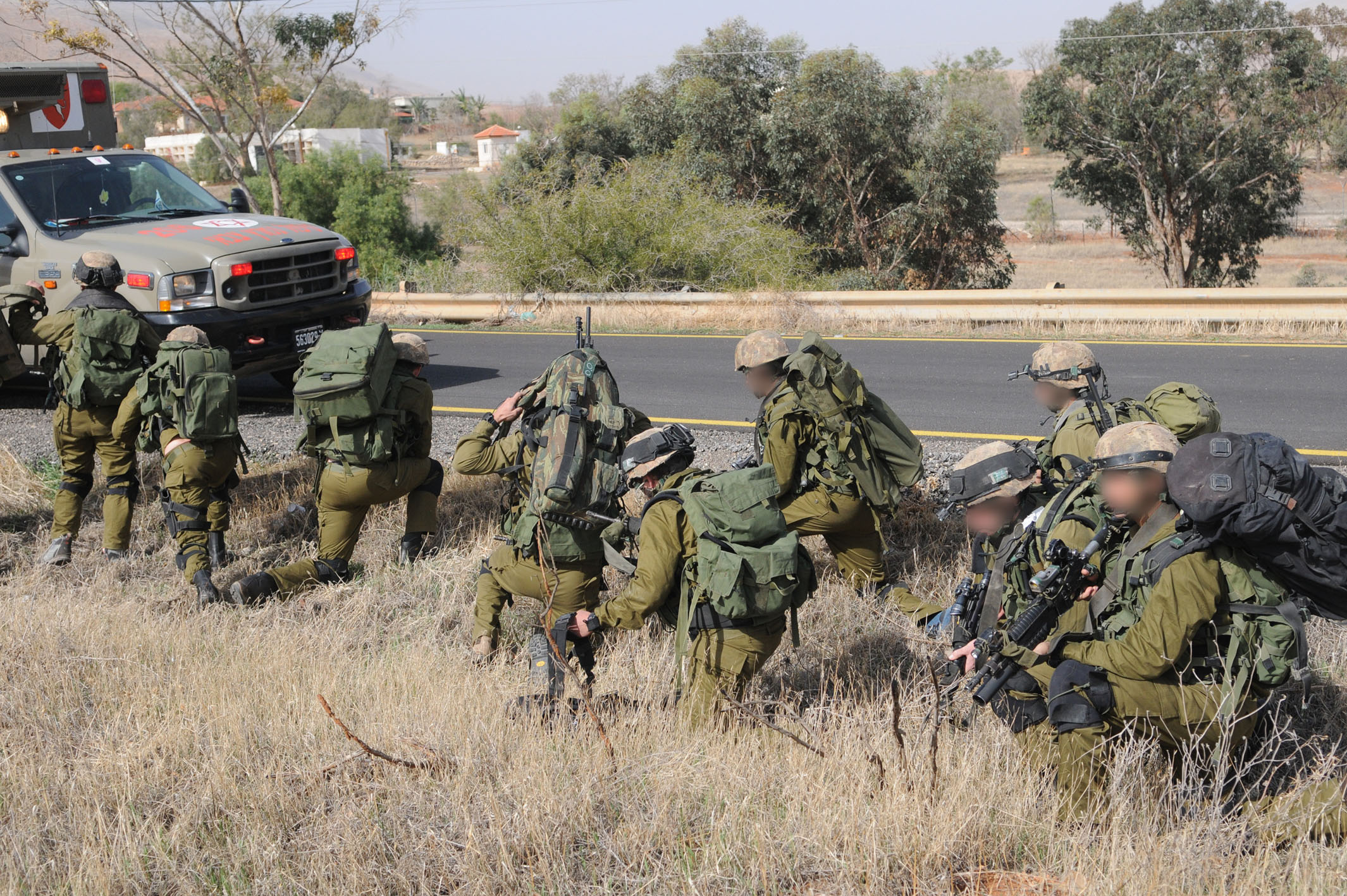 November 13, 2011 Chief of Staff Lt. Gen. Benny Gantz held today a surprise exercise for the Valley Brigade. Among other things, the forces practiced an abduction scenario from the Beka'ot Crossing to the Nablus area. The Israel Defense Forces Facebook page The Israel Defense Forces blog Follow us on Twitter